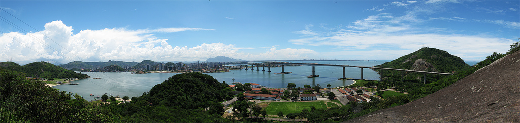 Terceira Ponte (Third Bridge) in Vitória-Vila Velha, Espírito Santo, Brazil.